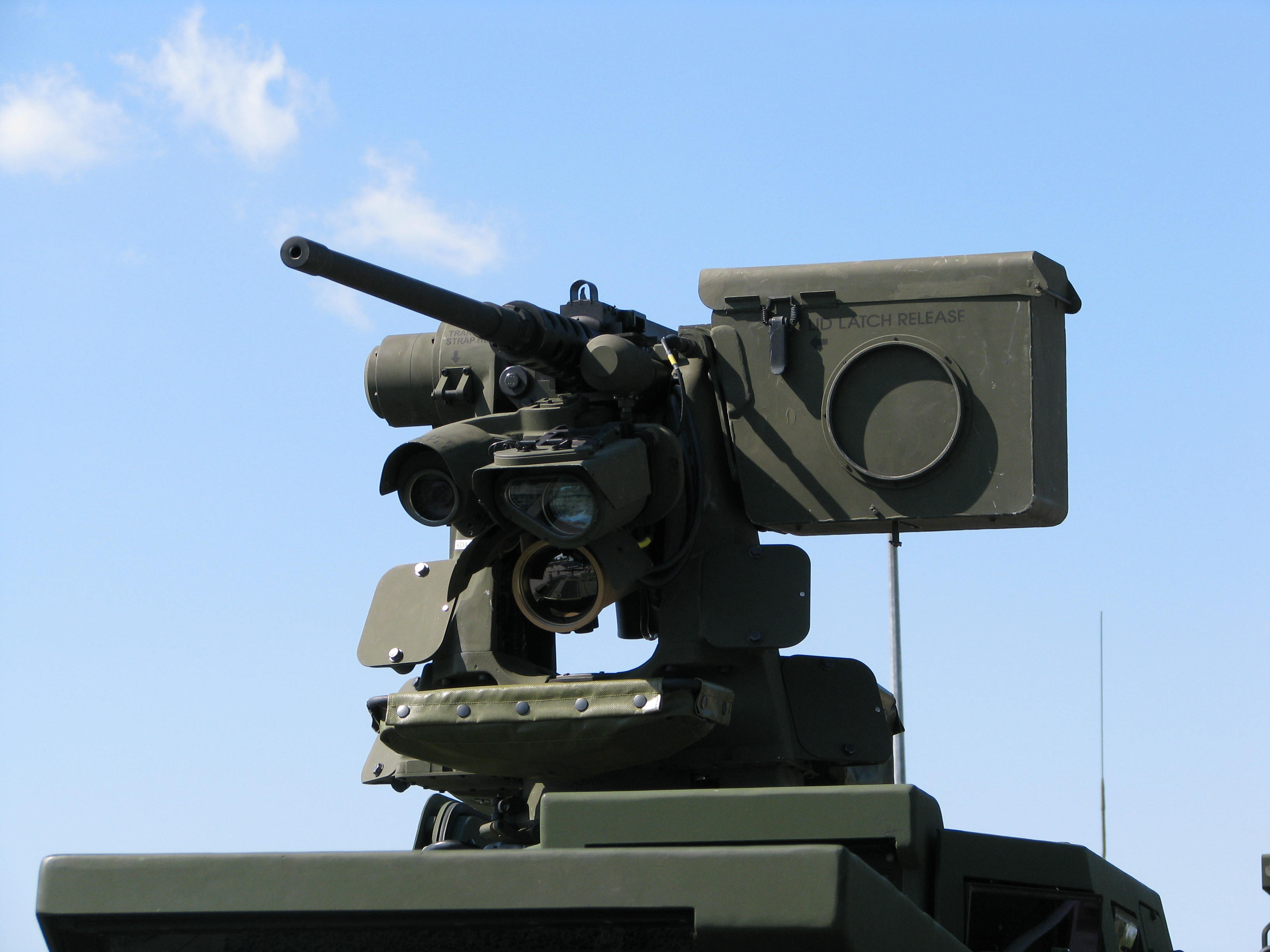 Croatian Patria AMV, Karlovac, 2009